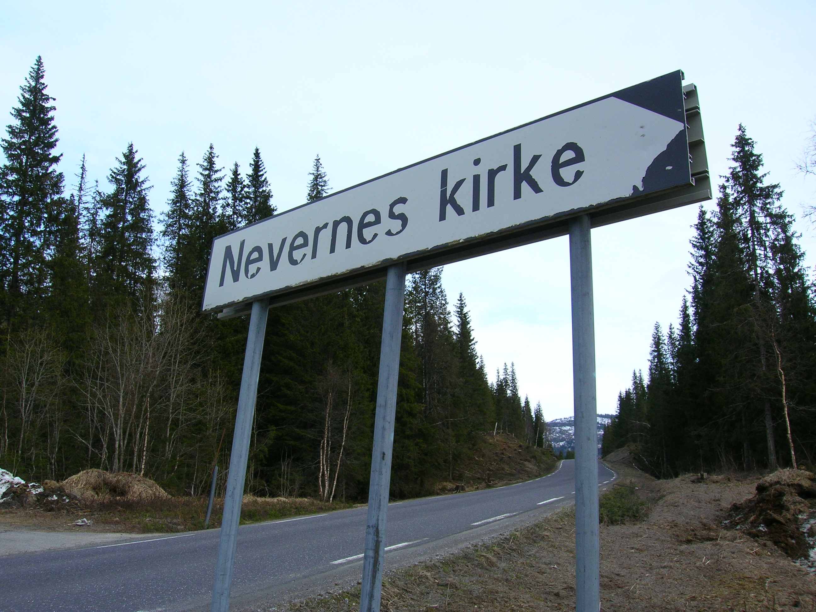 Nevernes church, Rana municipality, Nordland, Norway, Photo May 10, 2007 with a Nikon Coolpix 5600 5,1 Megapixel camera.